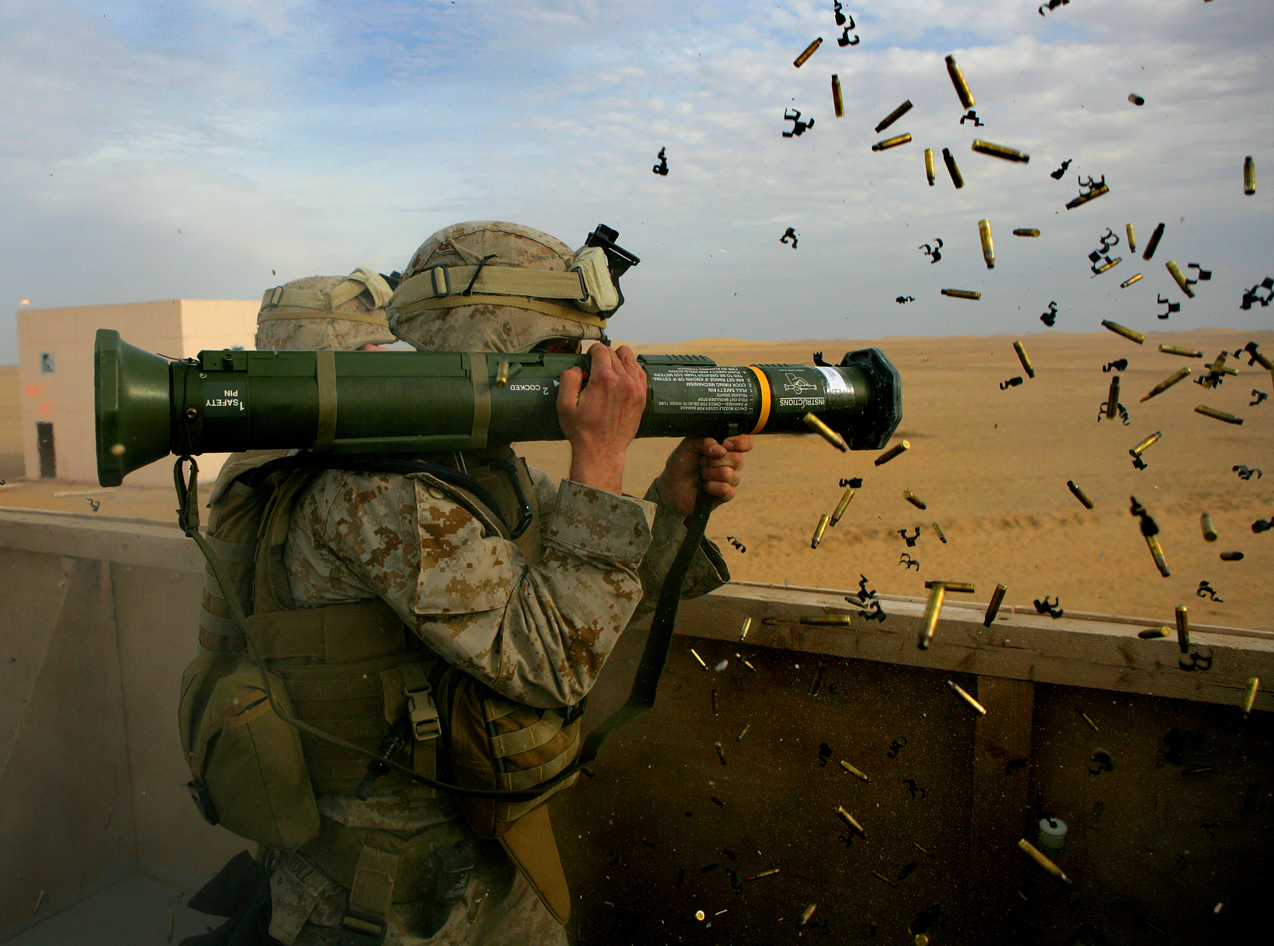 U.S. Marine Corps Lance Cpl. Tyler Carroll fires an AT-4 during live-fire training, Jan. 18, 2008, at the Udairi Range Complex in Kuwait. Marines with Company C, Battalion Landing Team 1st Battalion, 5th Marine Regiment, 11th Marine Expeditionary Unit, Camp Pendleton, Calif., are training as part of their current deployment to the Pacific and Arabian Gulf.